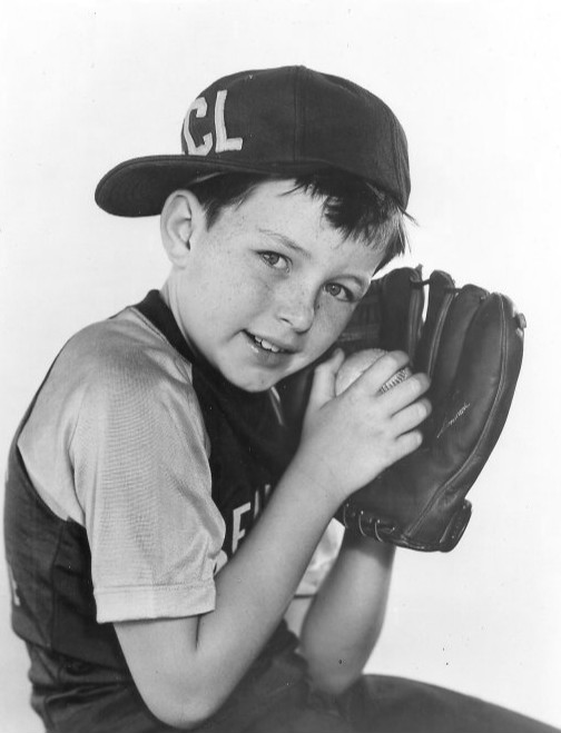 Photo of Jerry Mathers in 1959.